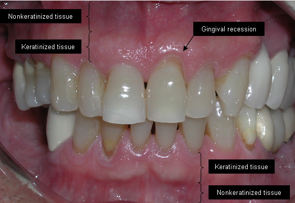 Frontal perspective of retracted oral cavity demonstrating zones of keratinized tissue, nonkeratinized tissue and gingival recession.